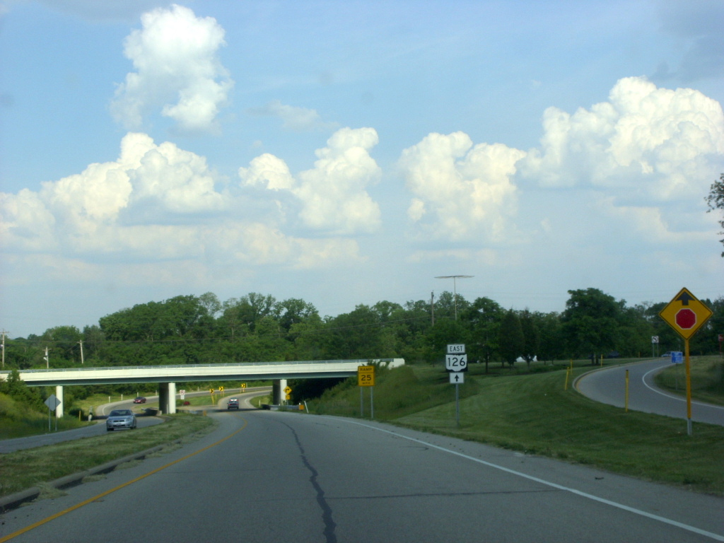 Ronald Reagan Cross County Highway eastbound at its eastern terminus with Montgomery Road in Montgomery, Ohio, United States.